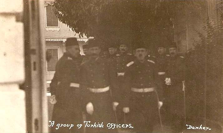 Officers of the Caliphate Army